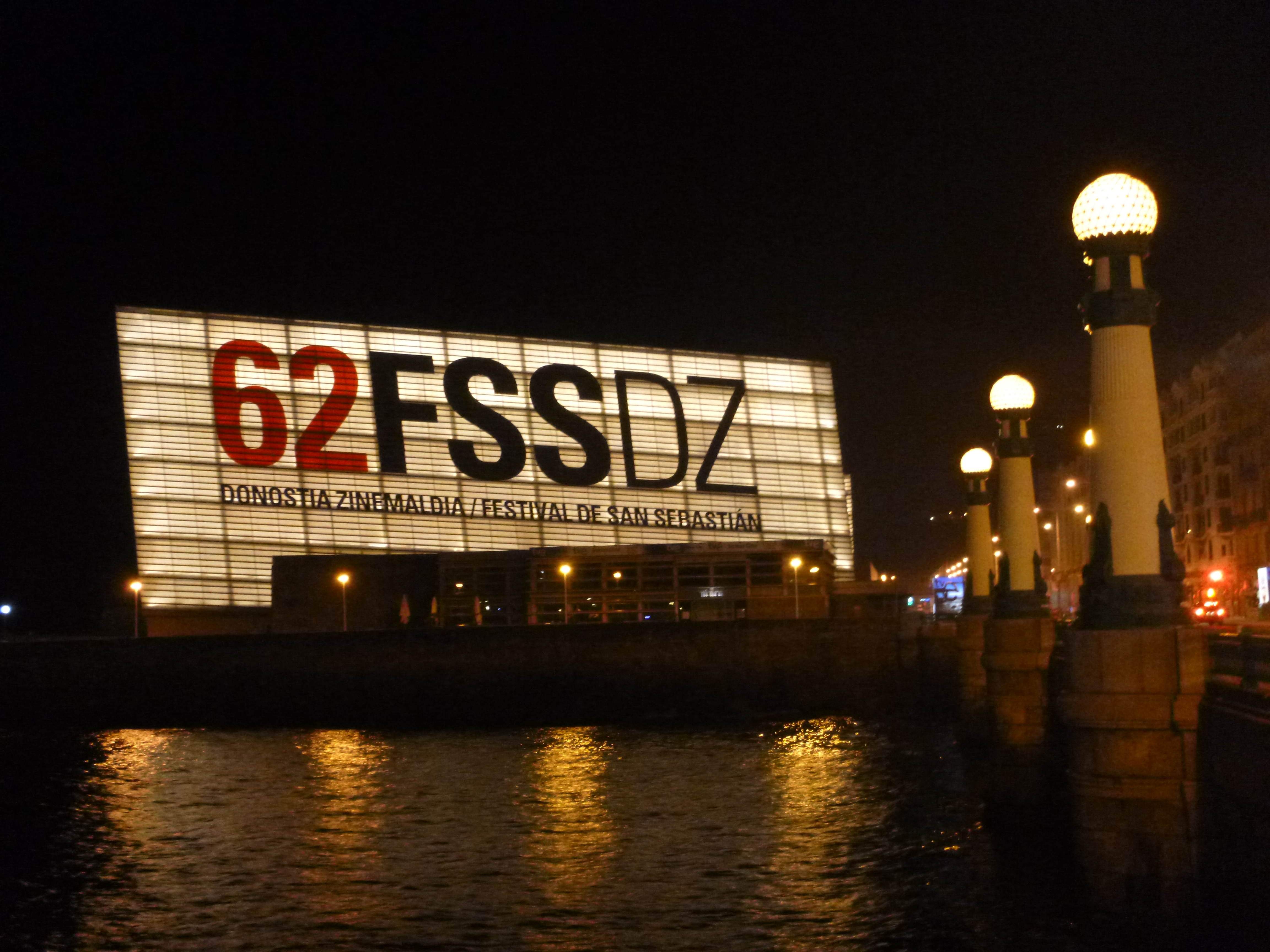 Zinemaldia in Kursaal, 2014.